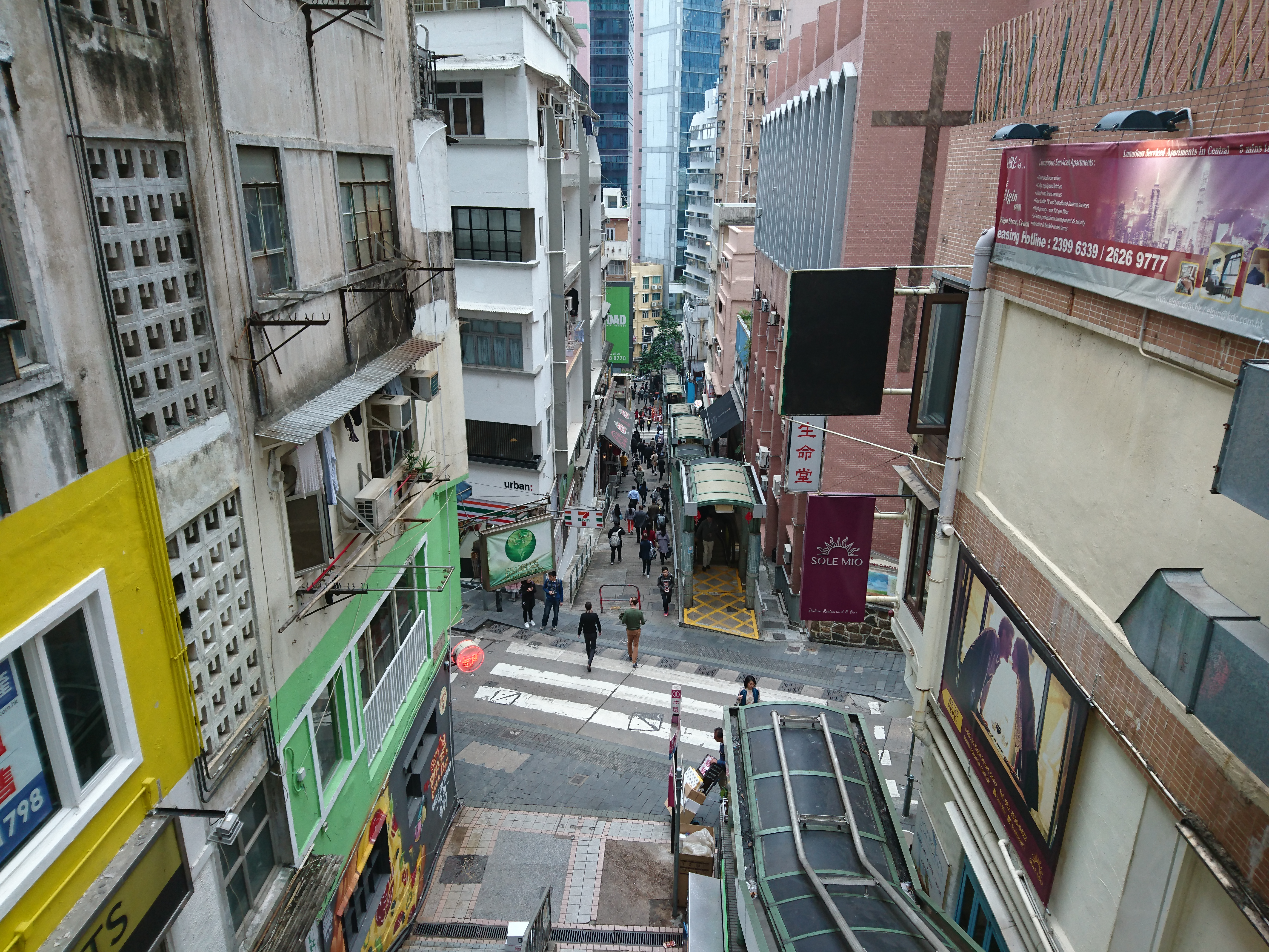 Shelley Street near Elgin Street